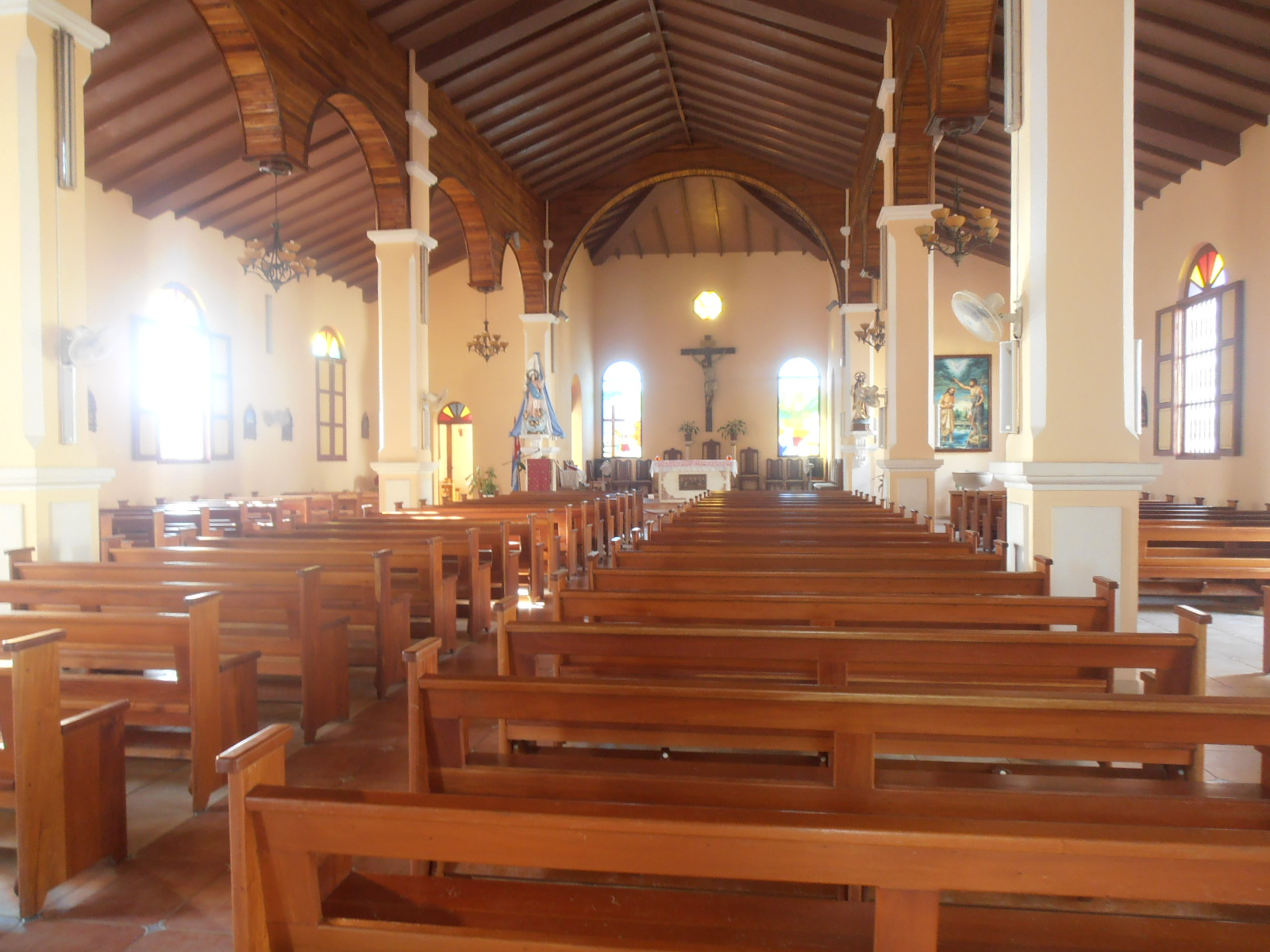 Baracoa: Catedral Nuestra Señora de la Asunción, interior